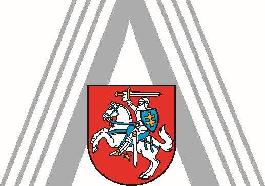 An emblem of The Office of the Chief Archivist of LithuaniaLietuvių: Lietuvos vyriausiojo archyvaro tarnybos ženklas